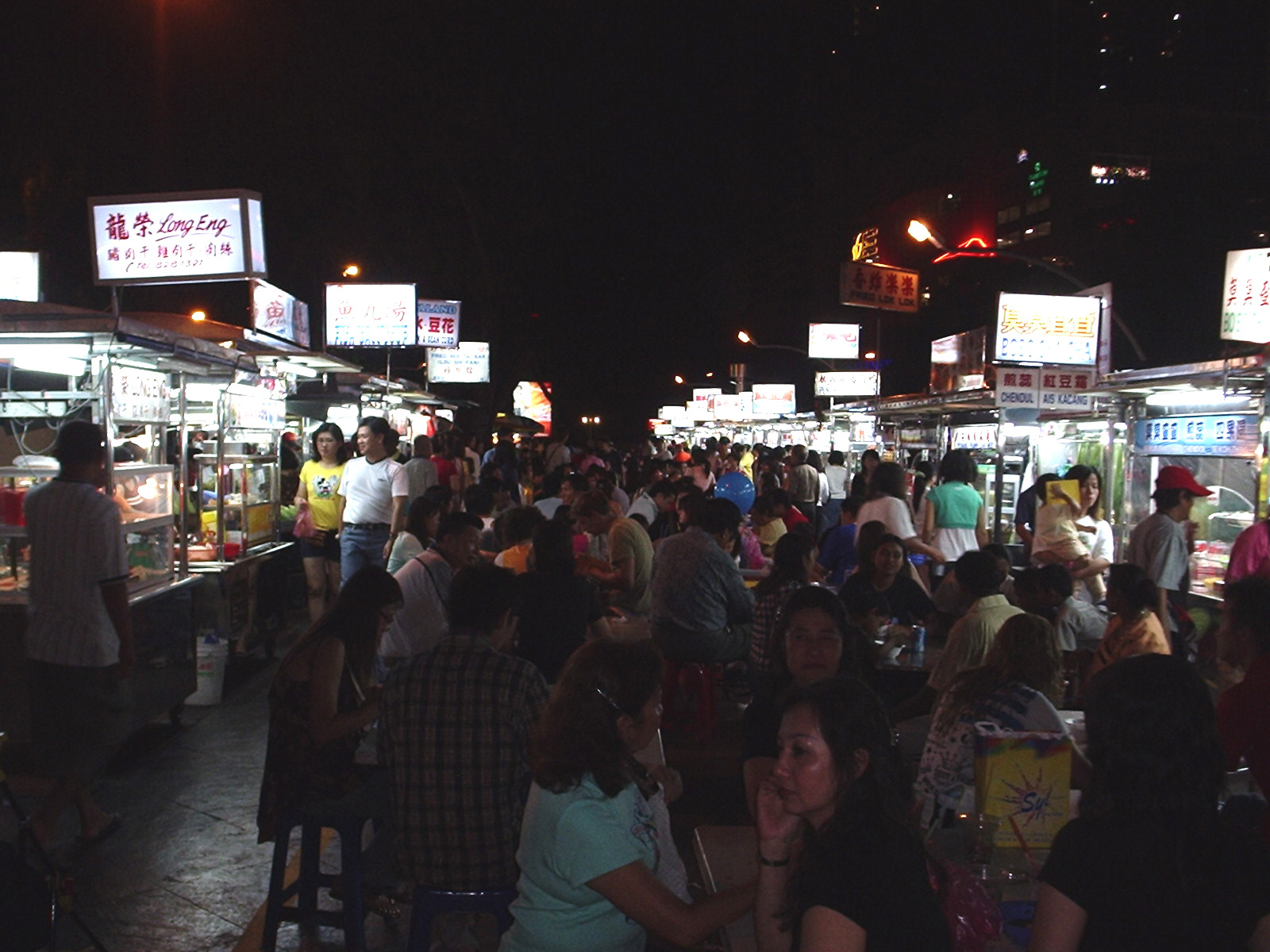 Hawker food centre at Gurney Drive.